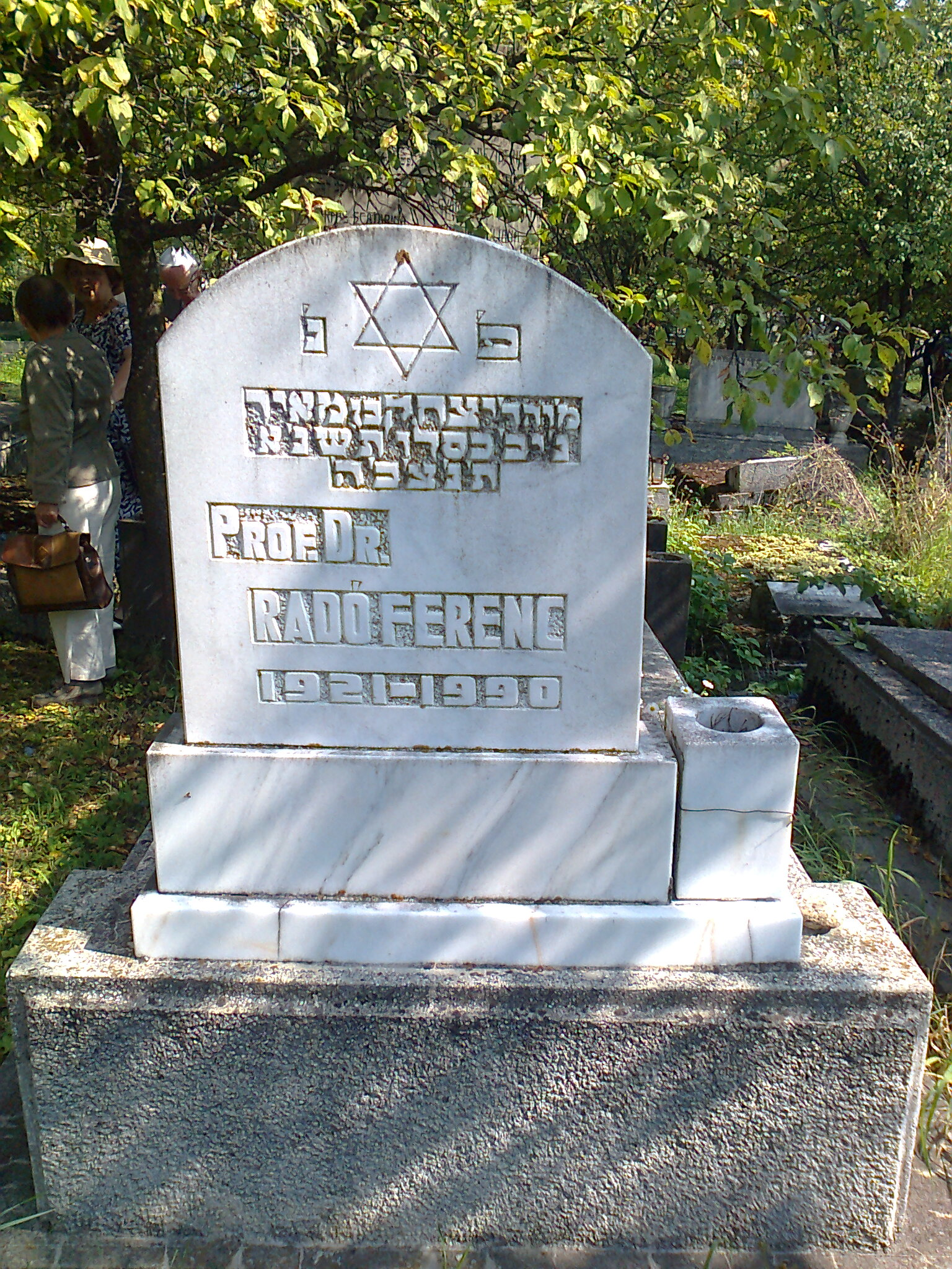 Grave of the mathematician Ferenc Radó (1921-1990)